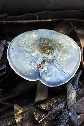 Cortinarius metallicus, near Trentham, Victoria